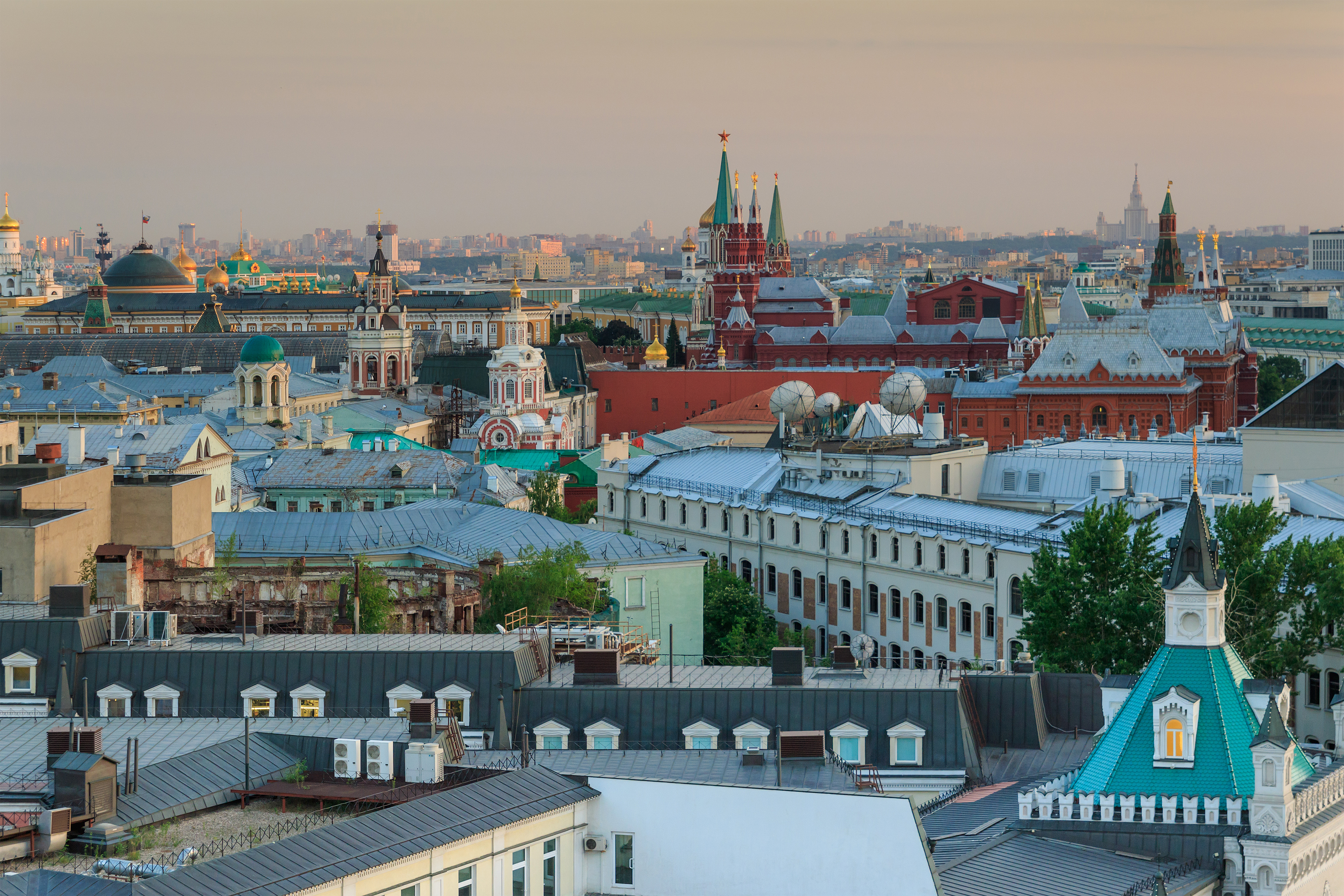 View from the Panoramic view point of the Central Children’s Store at Lubyanka Square in Moscow